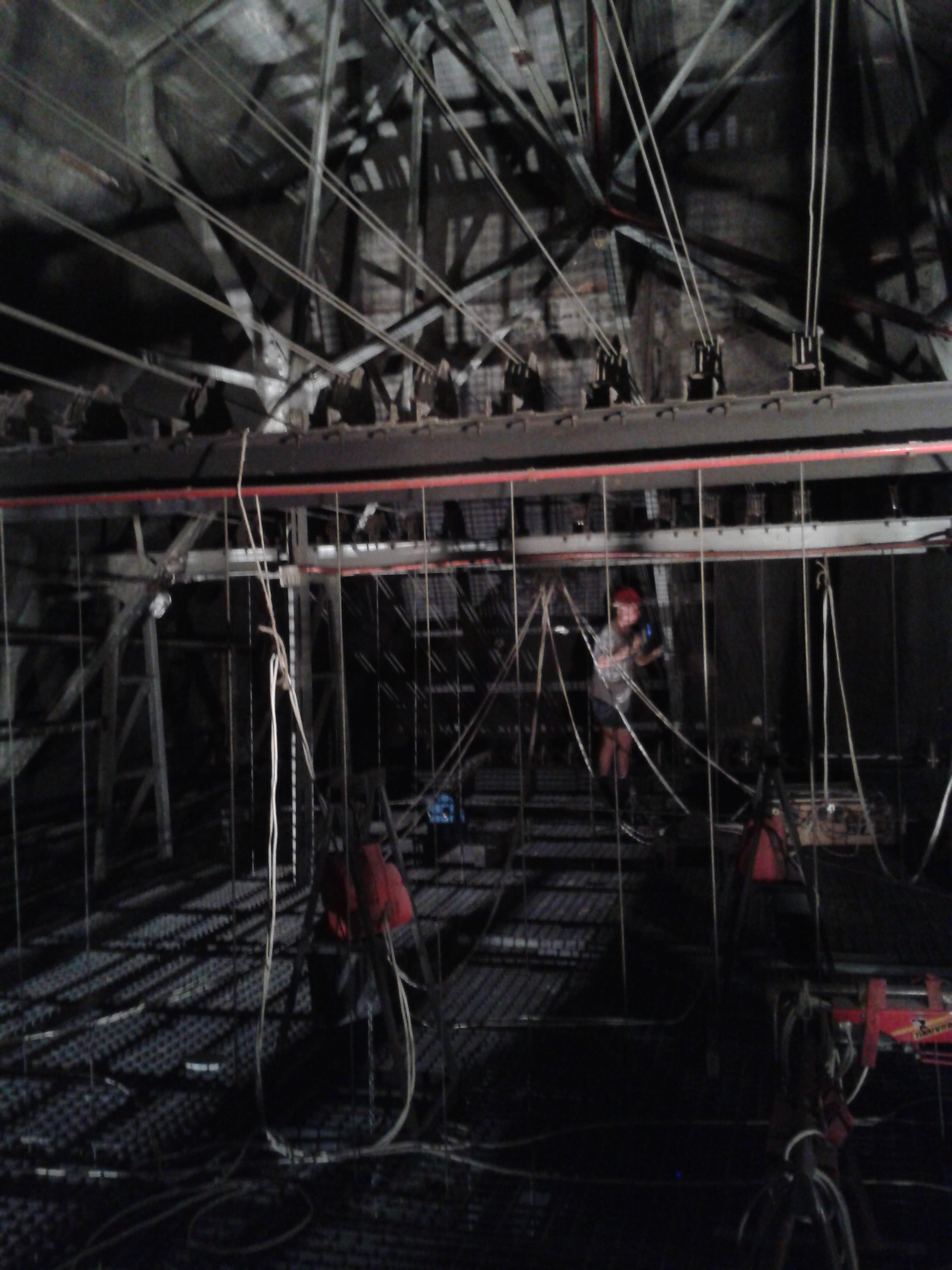 Above a theater stage (Kecskemét, Hungary) upper part of fly system, that moving battens - Grid deck